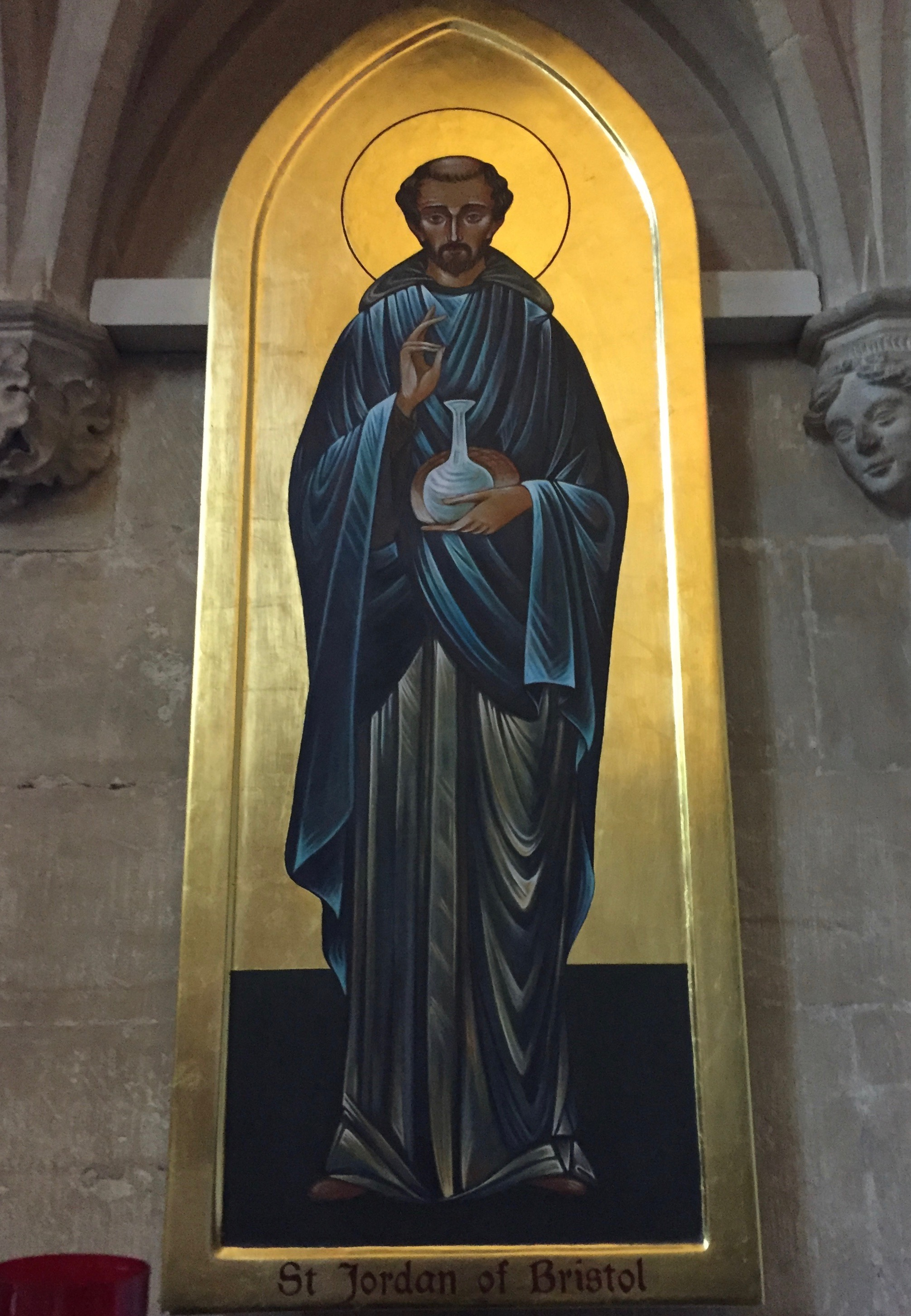 Icon of Saint Jordan of Bristol written by Helen McIldowie-Jenkins and displayed in Bristol Cathedral.